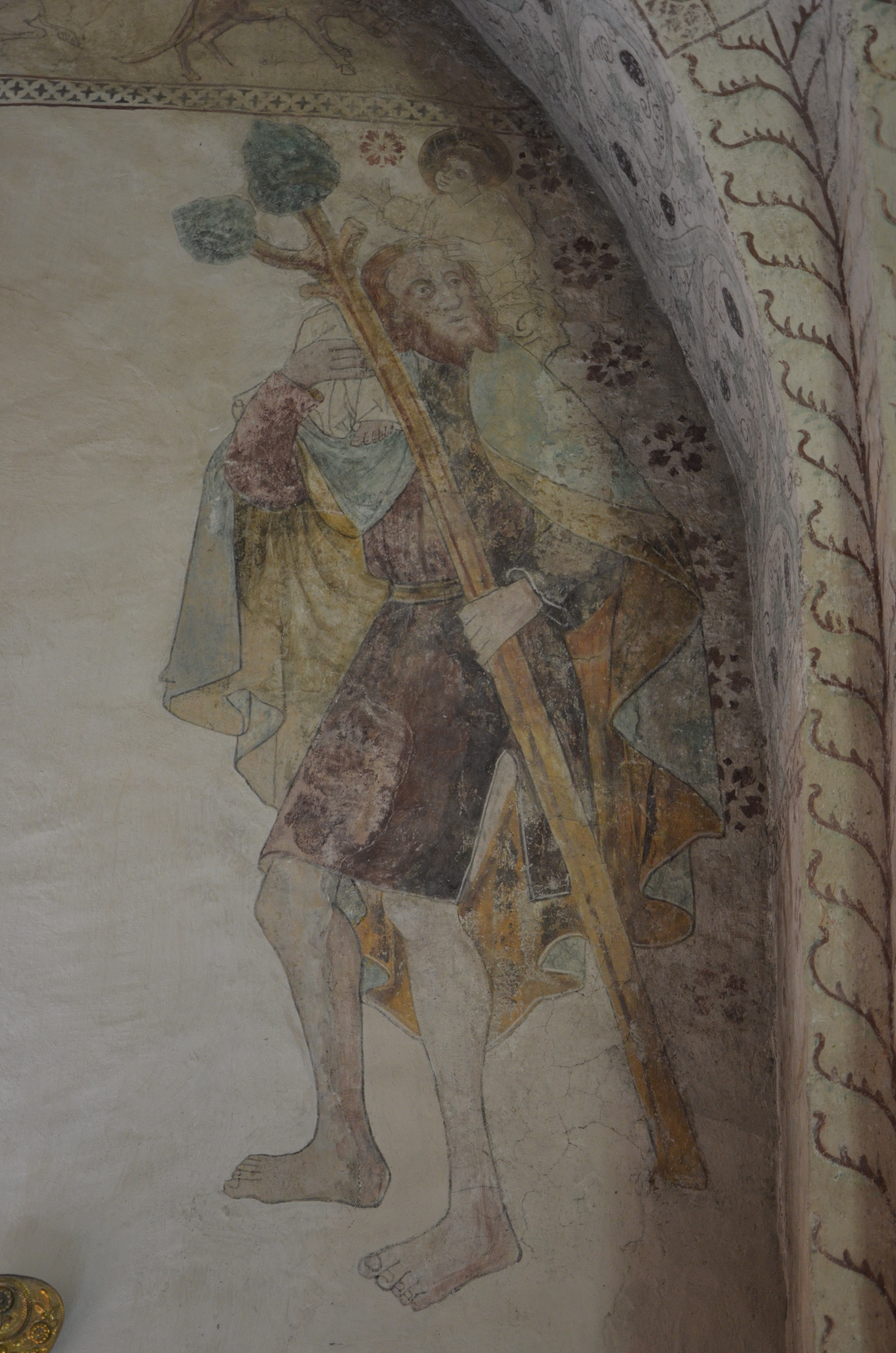 Painting by Albertus Pictor workshop in Almunge church, 15th Century, Saint Christoffer